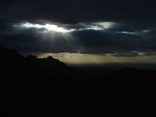 Cloudbreak, Wadi Araba from Petra, Jordan, 2004.